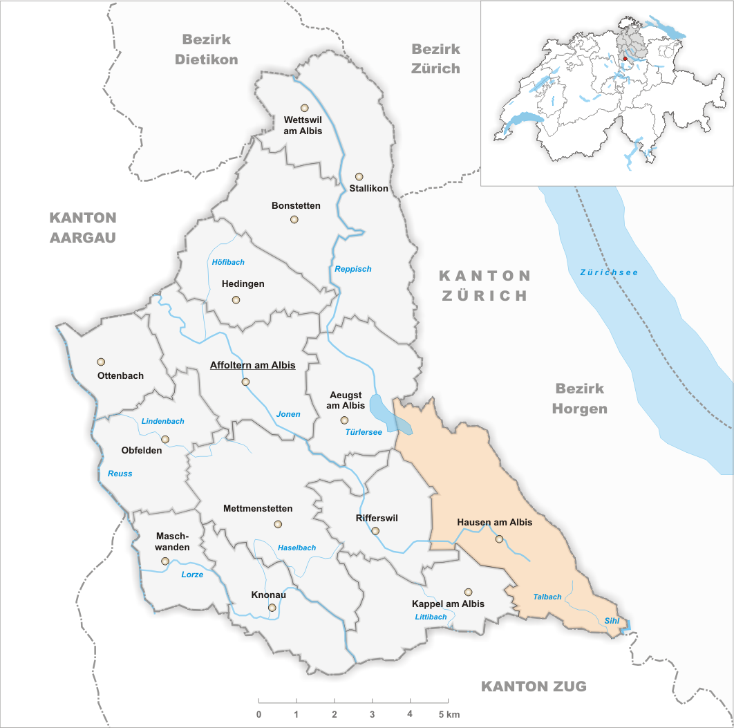 Municipality Hausen am Albis